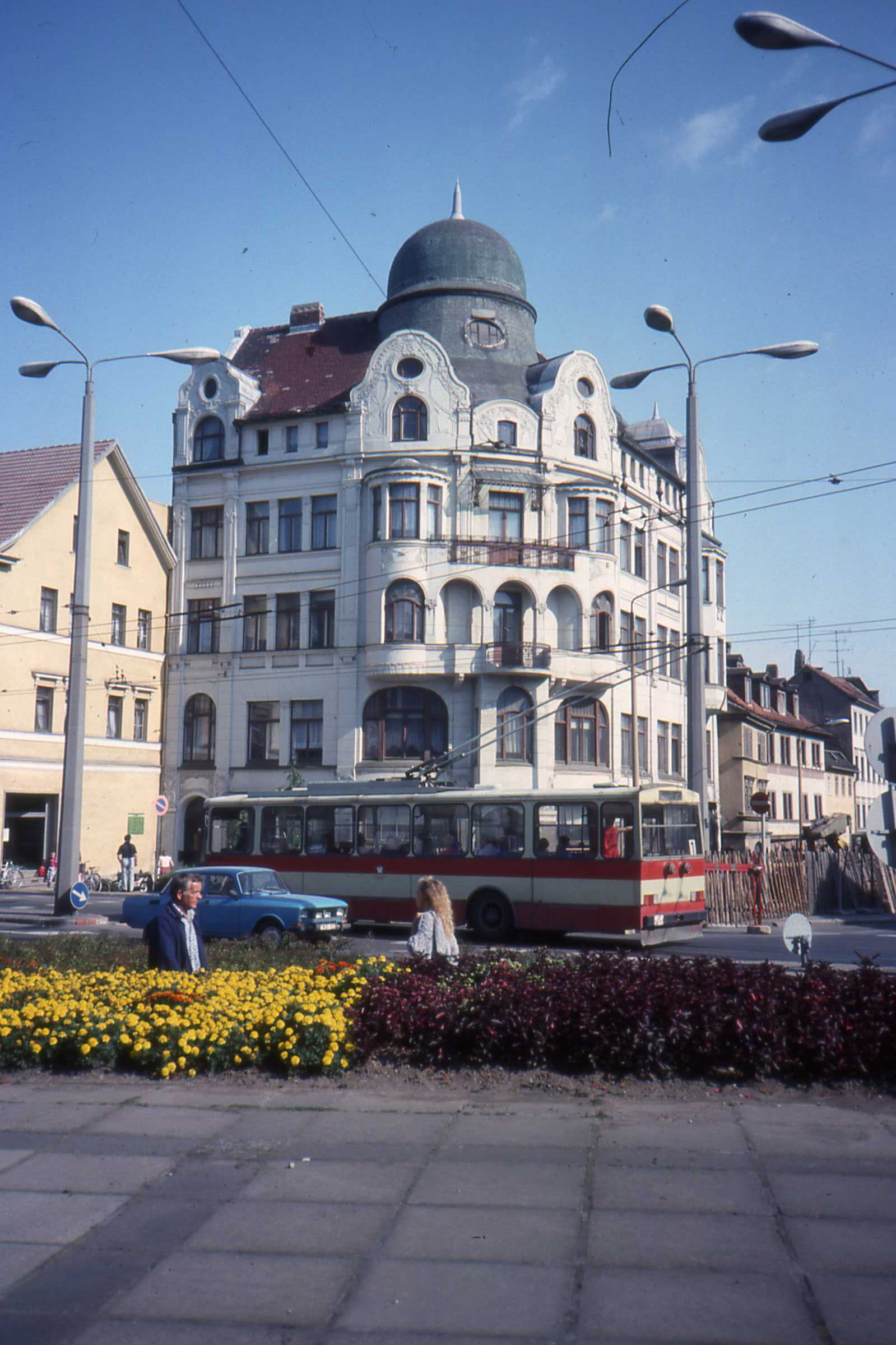 Škoda 14Tr trolleybus in Weimar, former East Germany